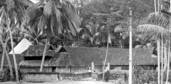 Thirunandikkara Temple